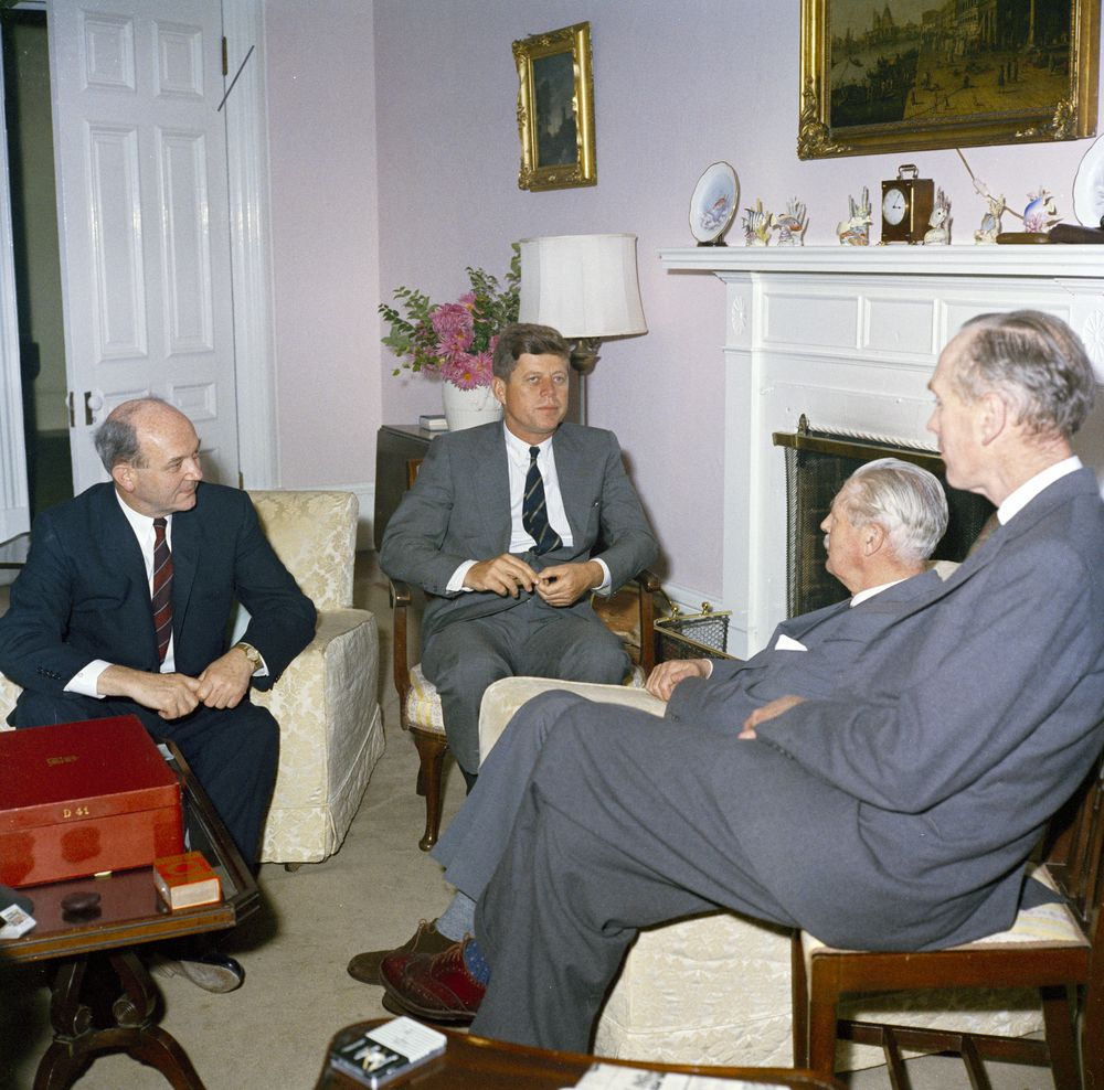 President John F. Kennedy meets with Prime Minister of Great Britain Harold Macmillan inside Government House in Hamilton, Bermuda. L-R: US Secretary of State Dean Rusk; President Kennedy; Prime Minister Macmillan; British Minister for Foreign Affairs and Earl of Home Alec Douglas-Home.